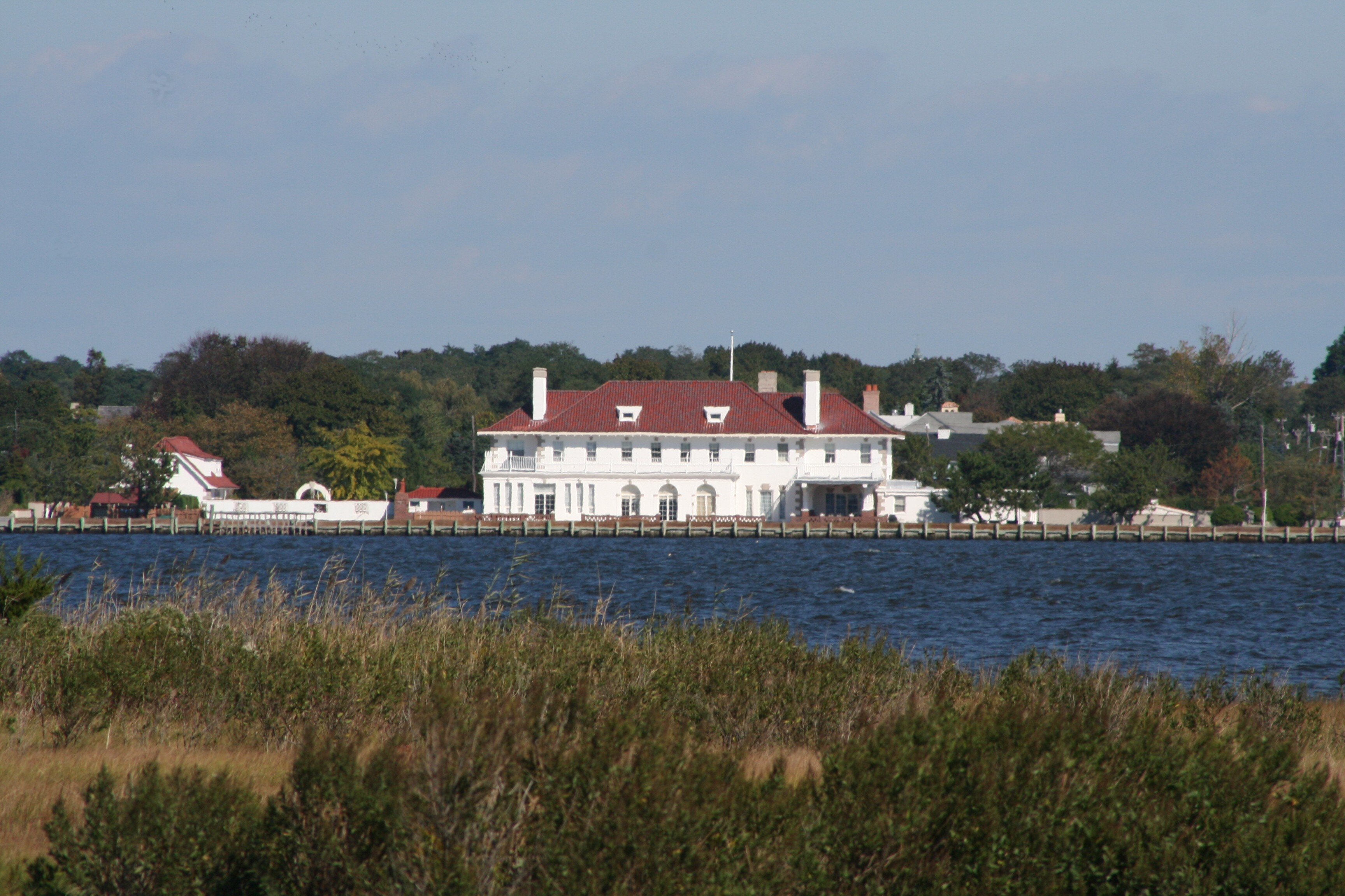 One of the inland waterways in Westhampton, New York